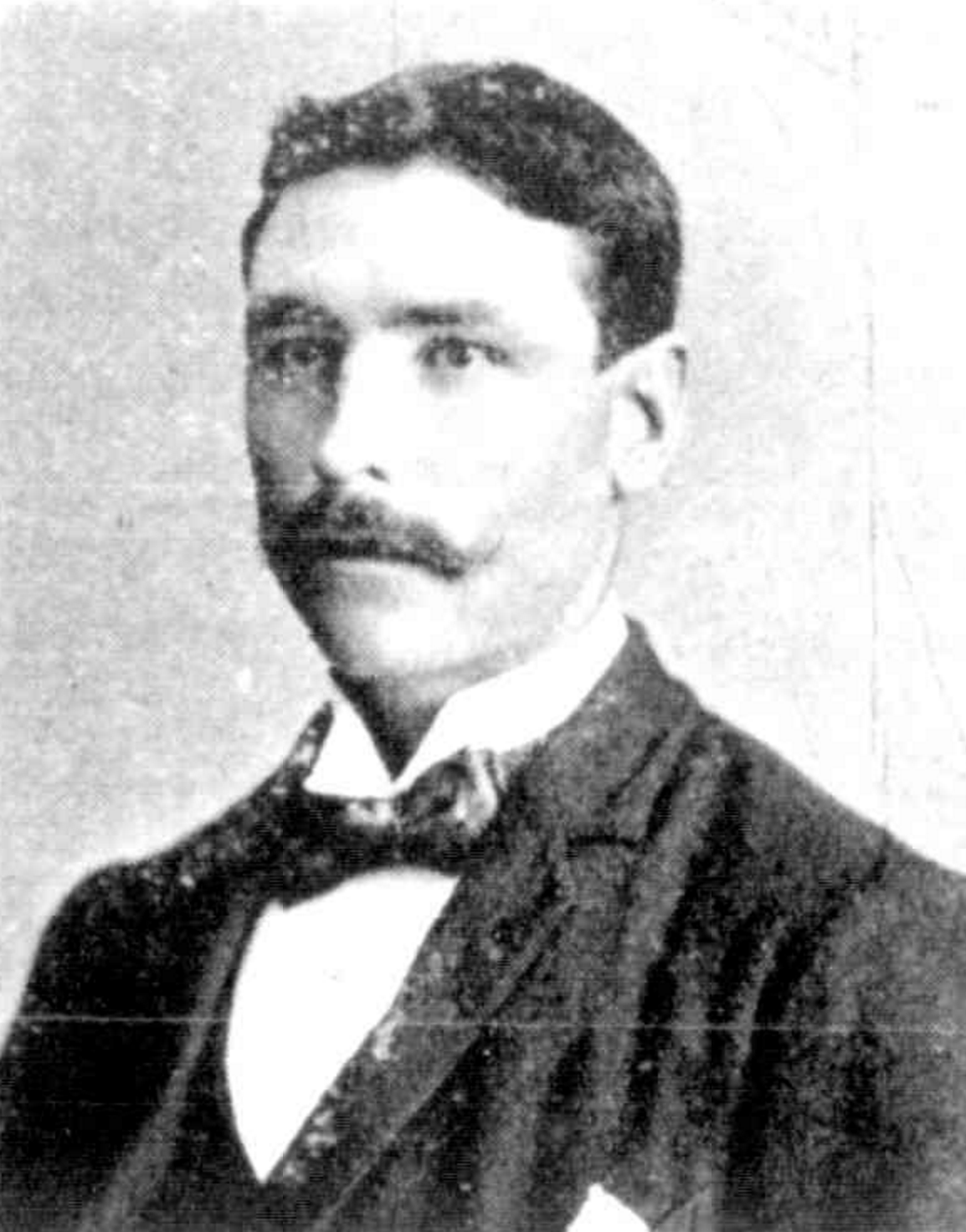 Portrait of Frank Hailwood published in Melbourne Punch with portraits of several dozen other Victorian Football League players.